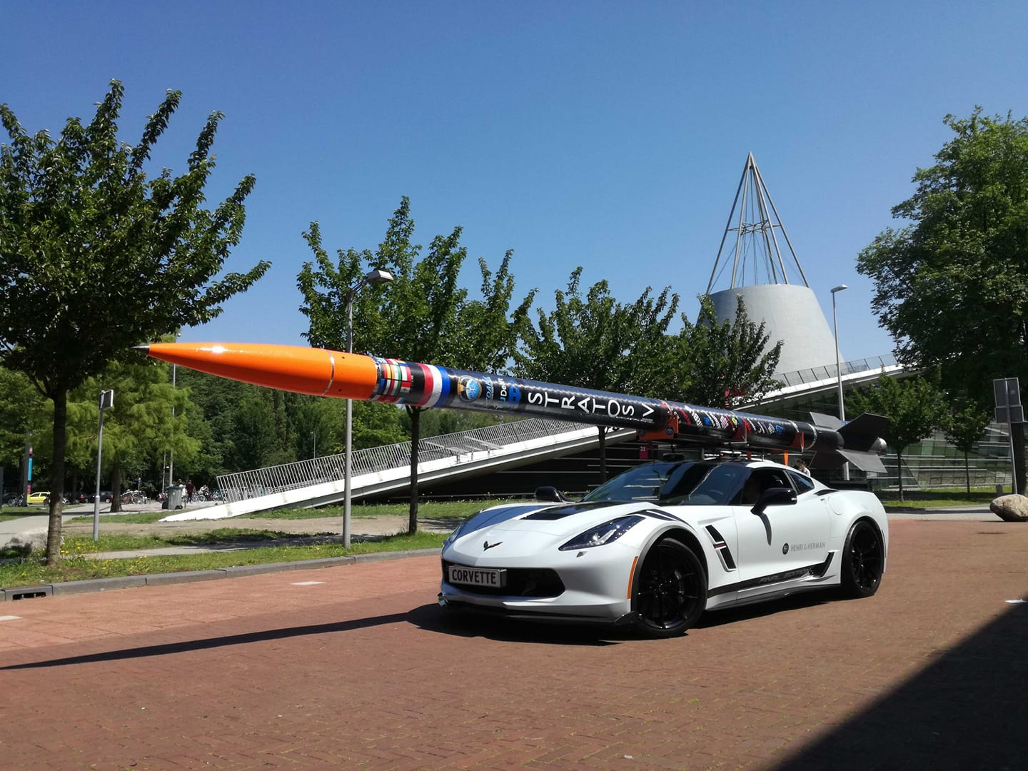 Stratos IV rocket on Corvette C7 car.